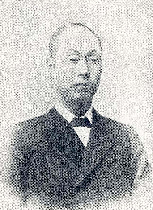 広瀬鎮之 Hirose Chinshi